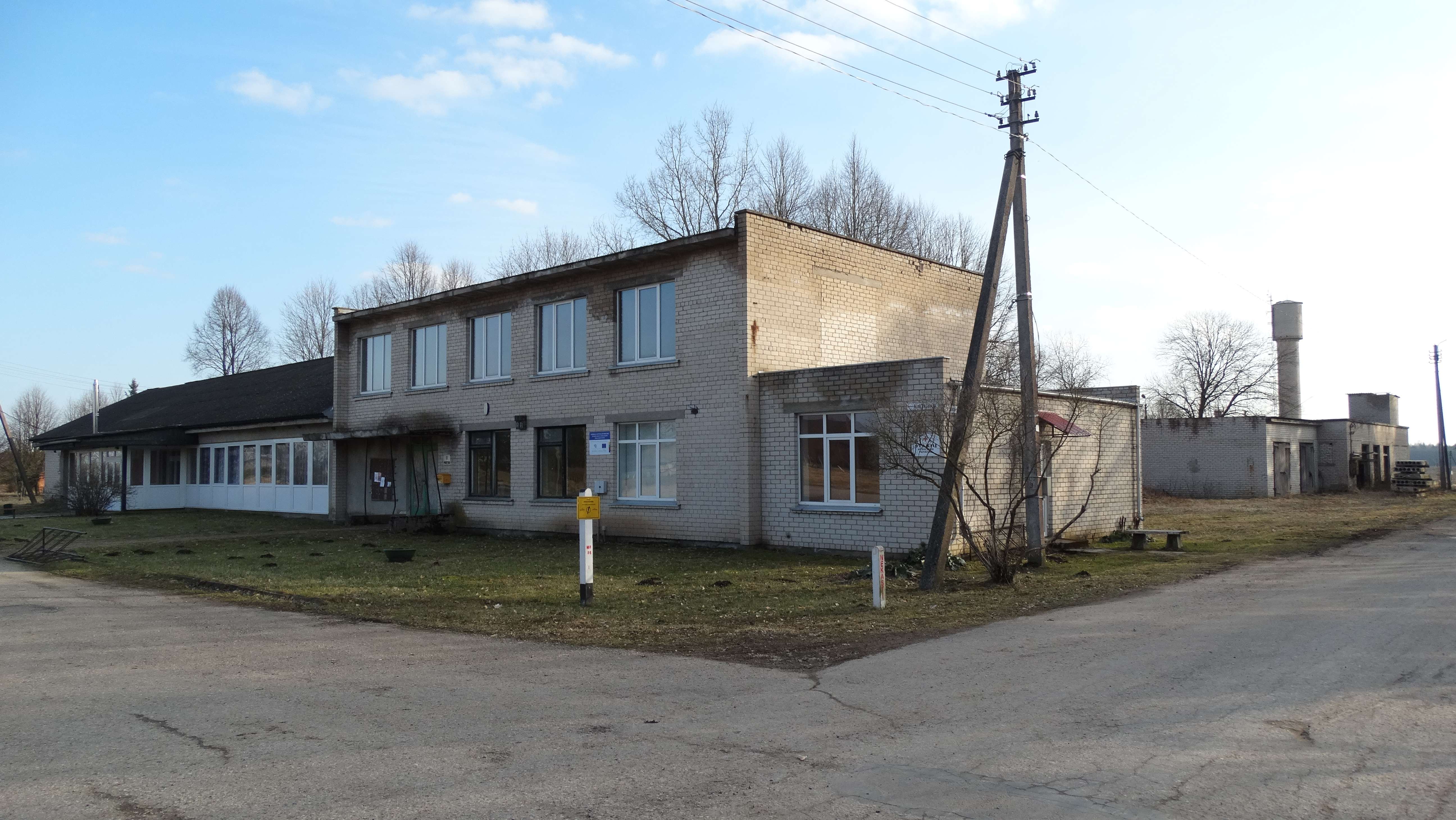 Stakiai, Jurbarkas district, Lithuania